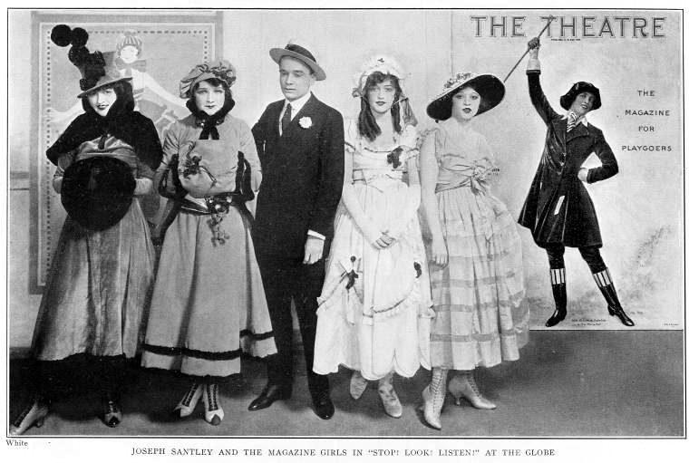 "Stop! Look! Listen!" (1915–16)